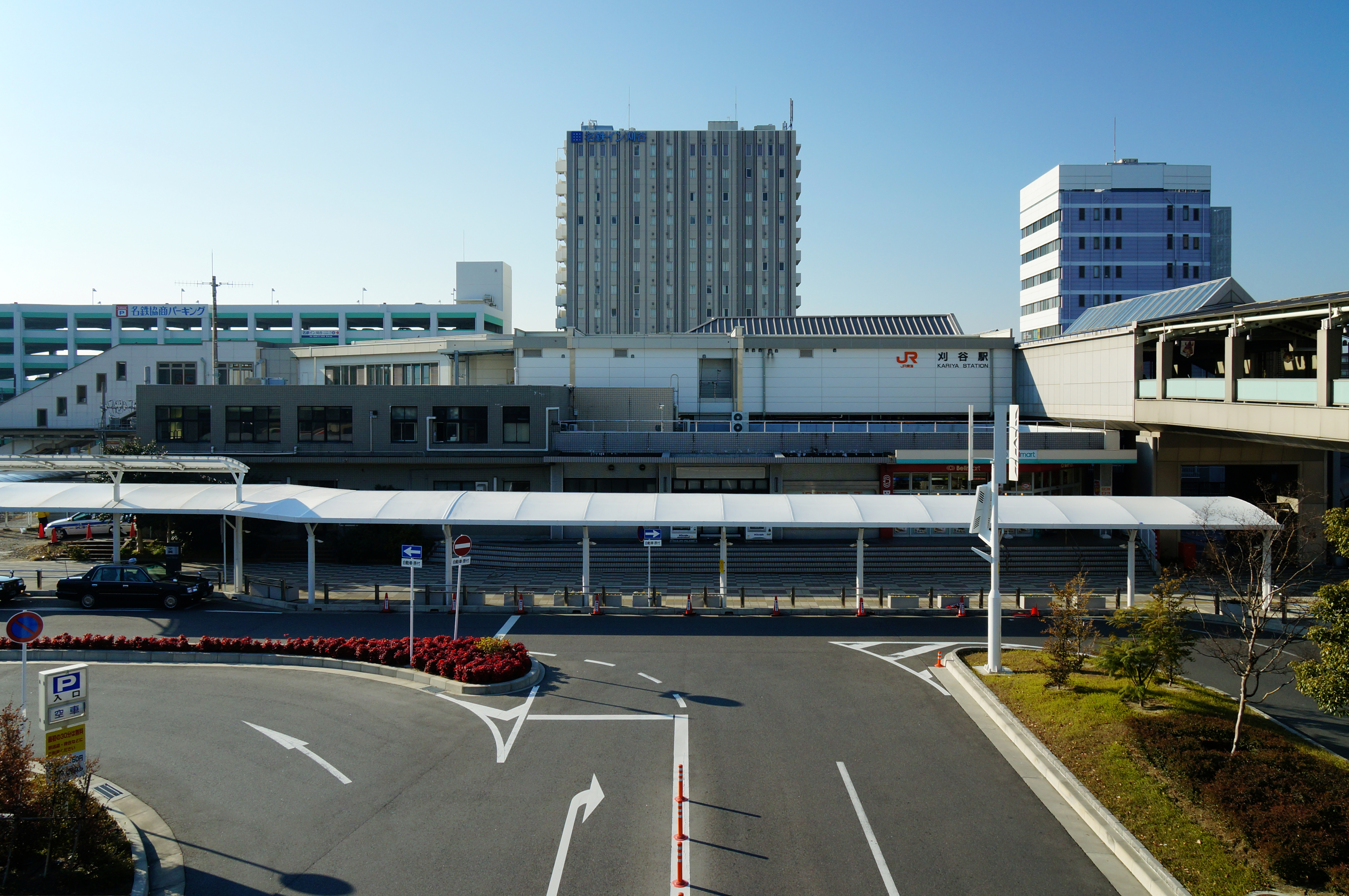 Kariya_Station in Kariya, Aichi prefecture, Japan.